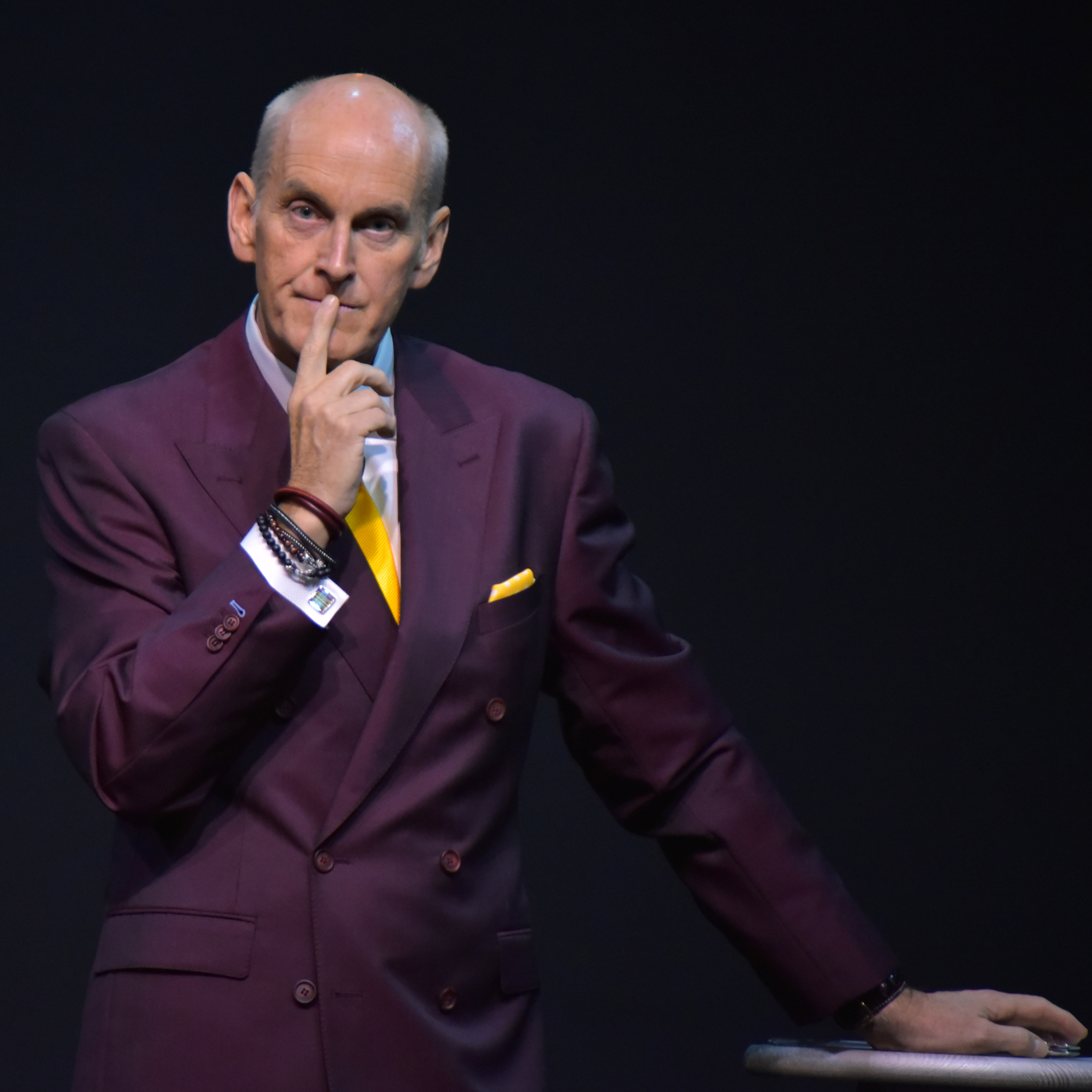 Todd at Sales Mastery